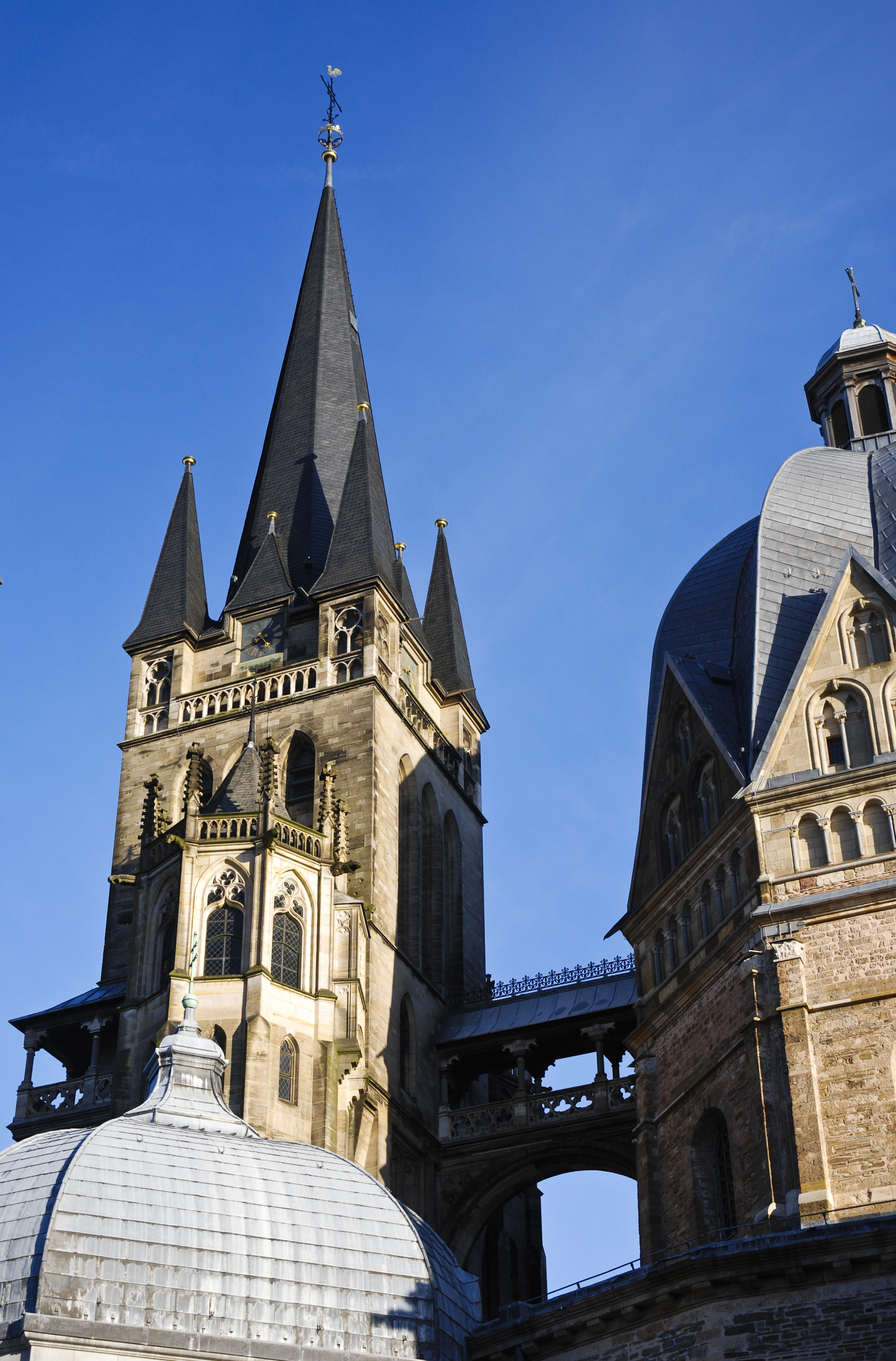 Tower of the Aachen Cathedral.